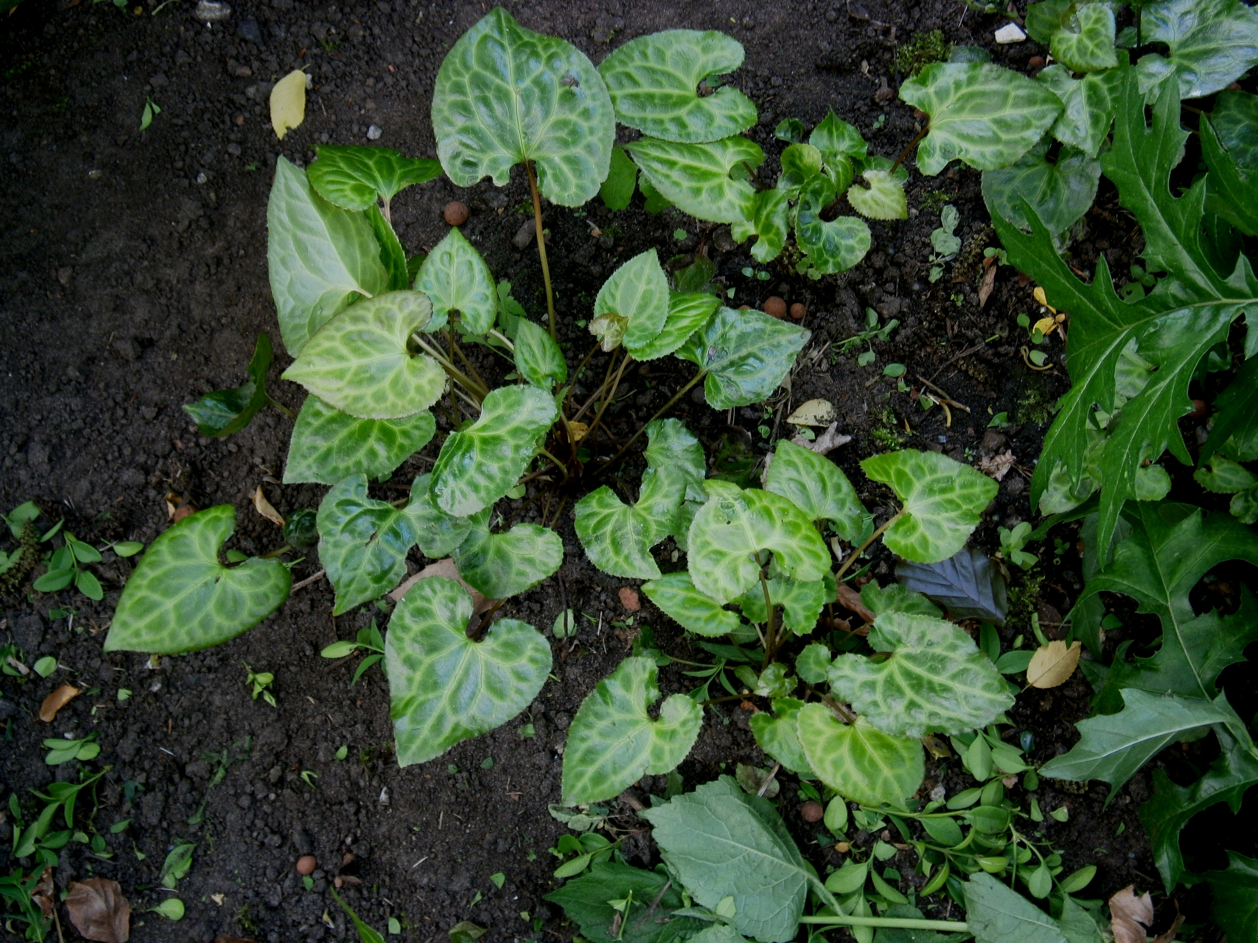 Beesia calthifolia